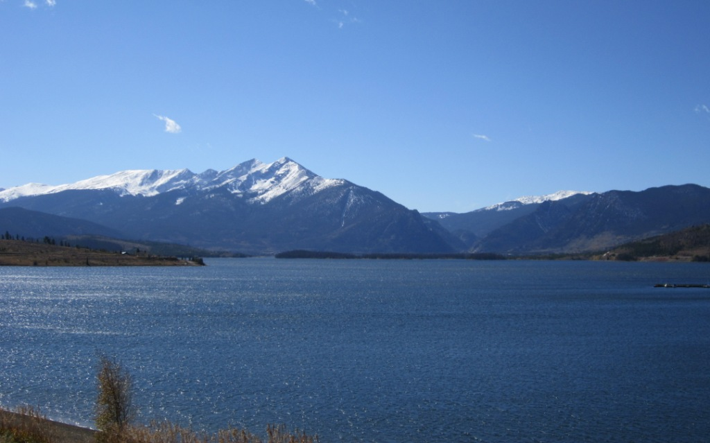 Lake Dillon in October